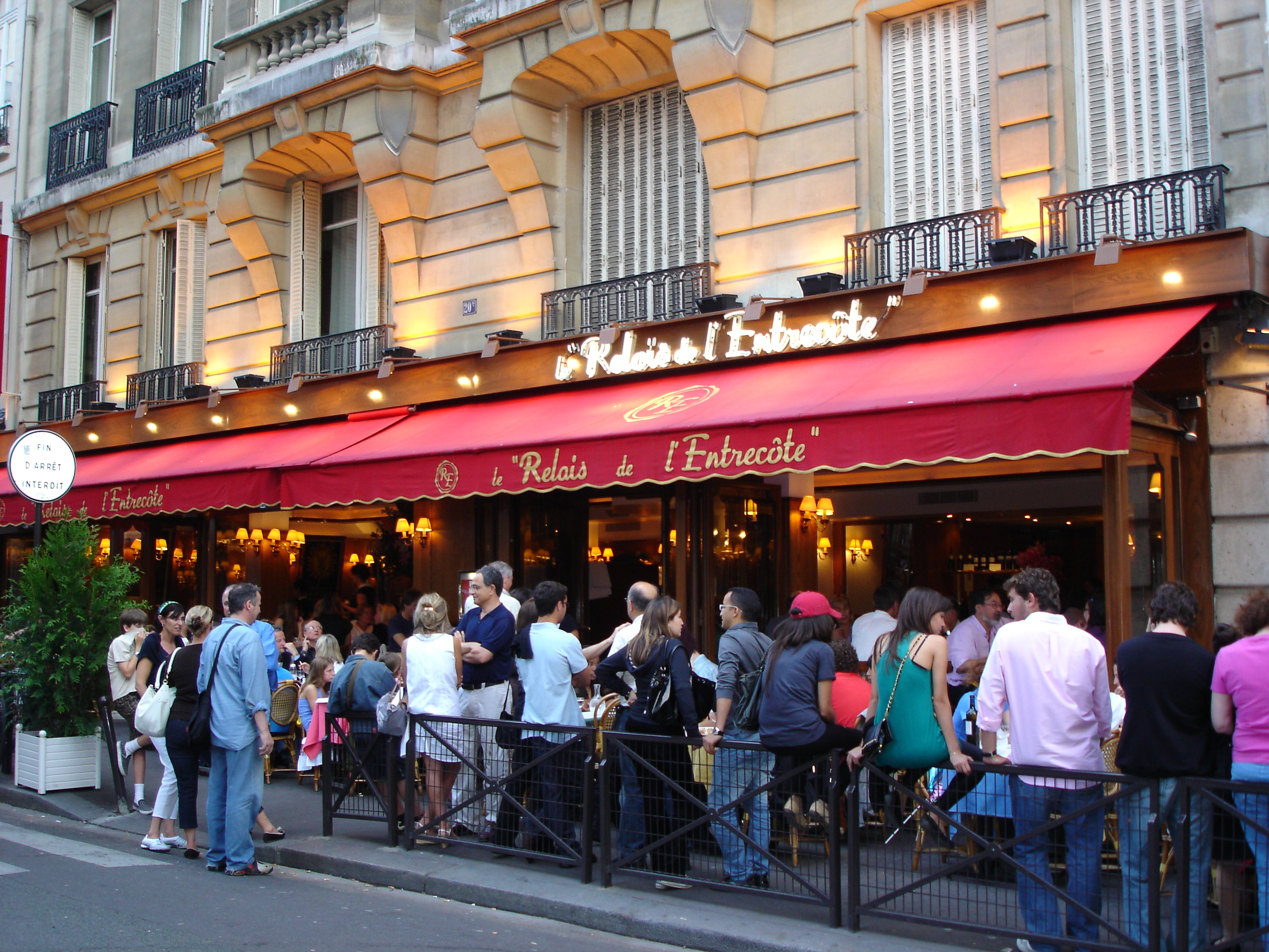 Le Relais de l'Entrecôte (L'Entrecôte St Germain), 20bis, rue Saint Benoit, Paris VIe